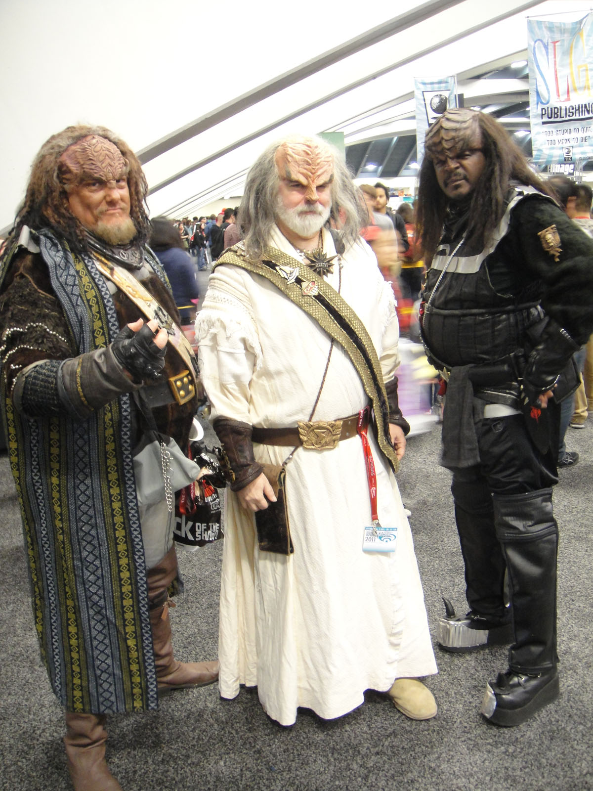 WonderCon 2011 - 3 Klingons from Star Trek